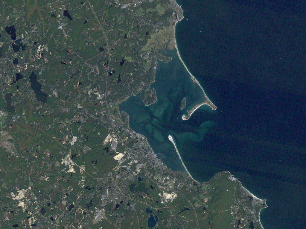 Overview of Plymouth Bay and Plymouth Harbor in Plymouth, Massachusetts. The western shore of Cape Cod Bay is visible, and the towns of Plymouth, Duxbury and Kingston can be seen. Plymouth Beach and Saquish Neck are visible jutting out into the bay.